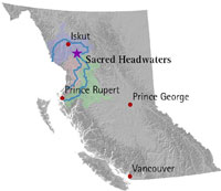 Map showing British Columbia's Sacred Headwaters, the source of the Skeena, Nass and Stikine Rivers.